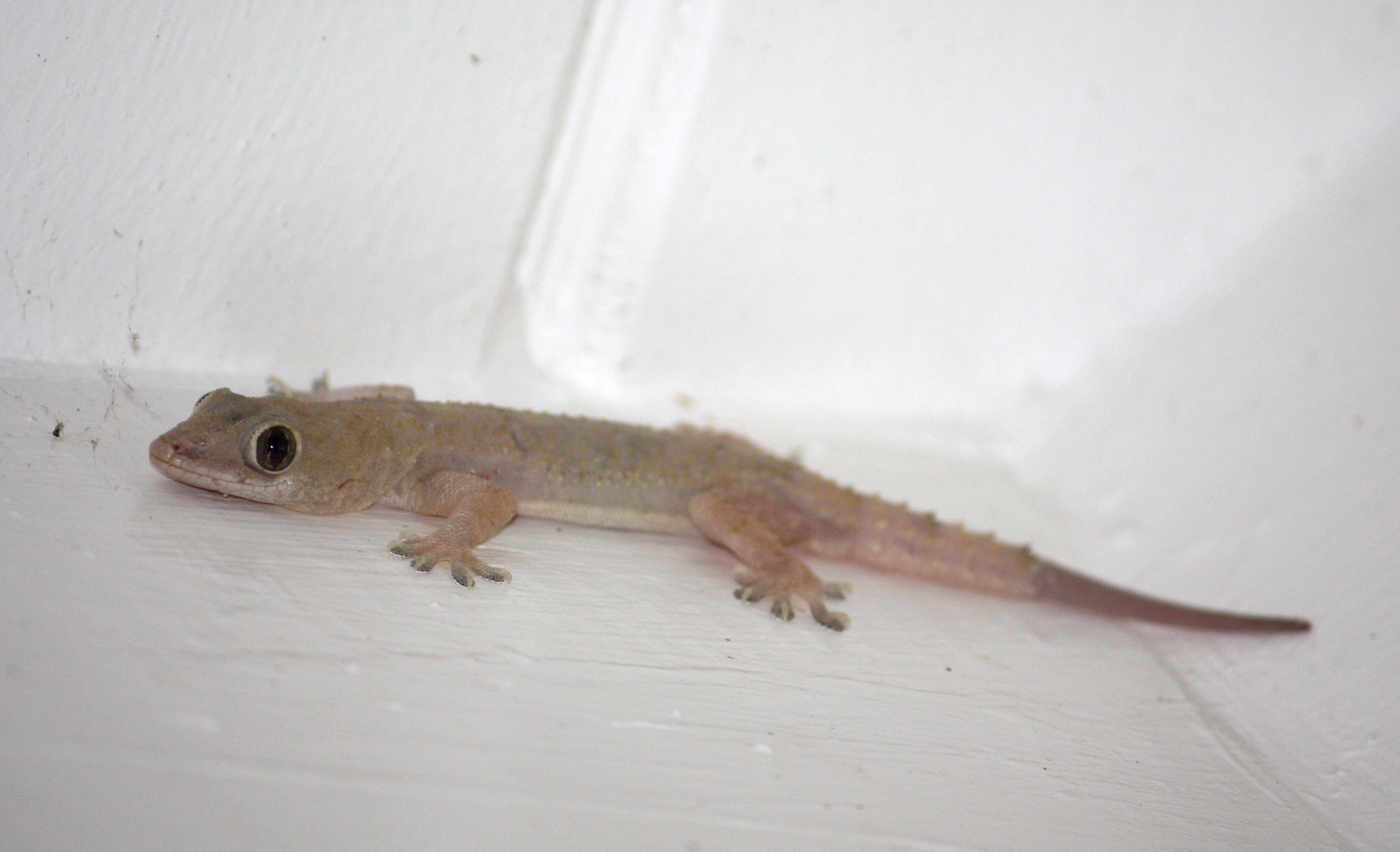 Tropical House Gecko (Hemidactylus mabouia). Coulibistrie, Dominica.